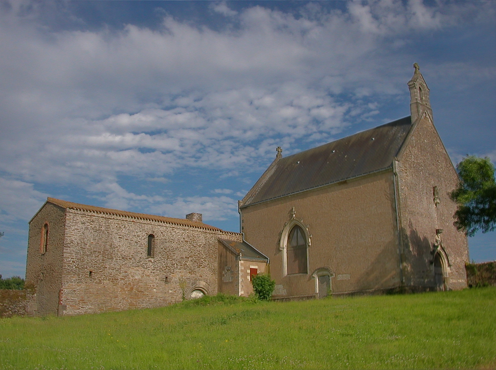 Saint-Lupien chapel in Rezé